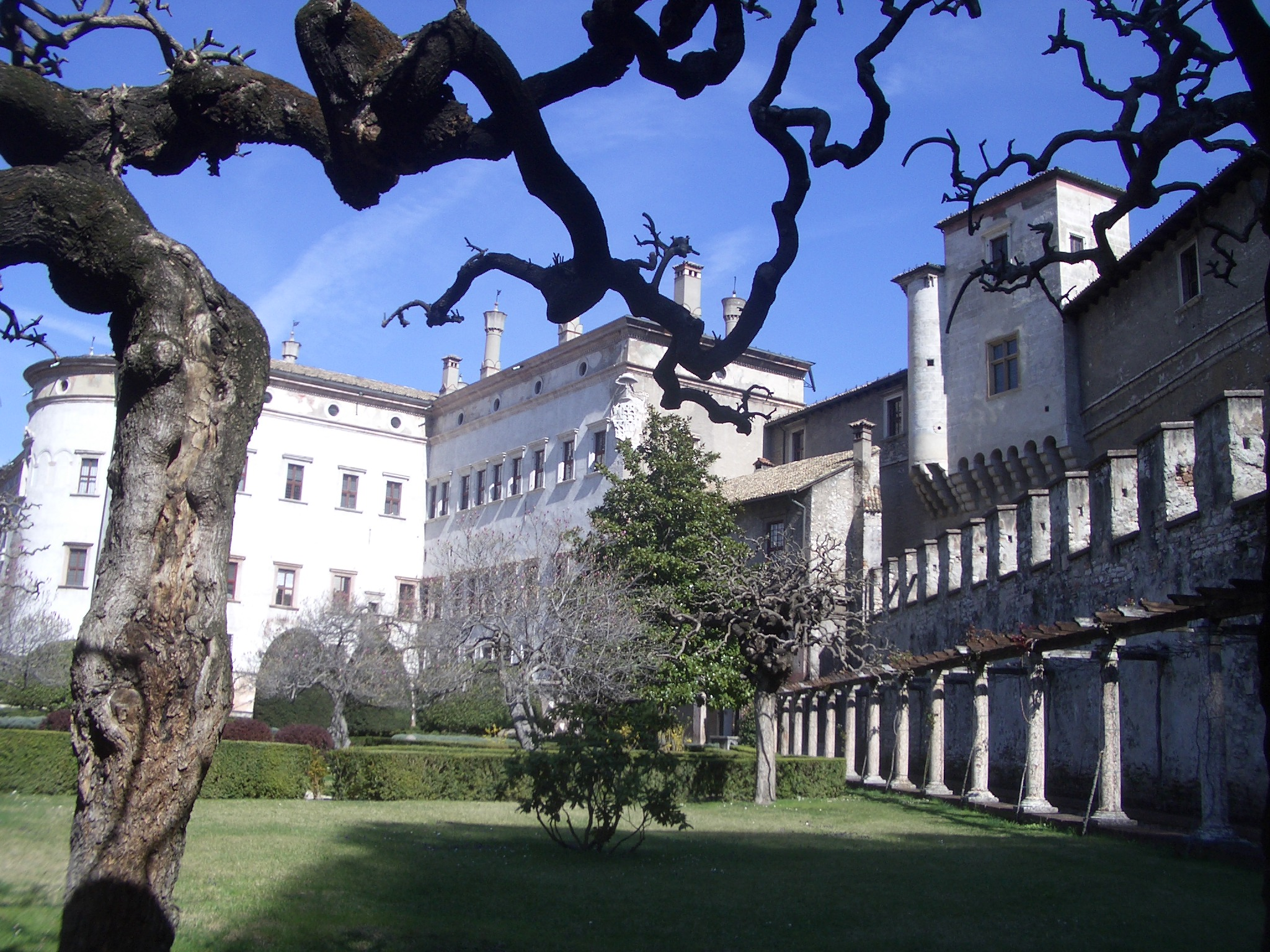 Castello del Buonconsiglio, Trento. (View of the castle from the garden)